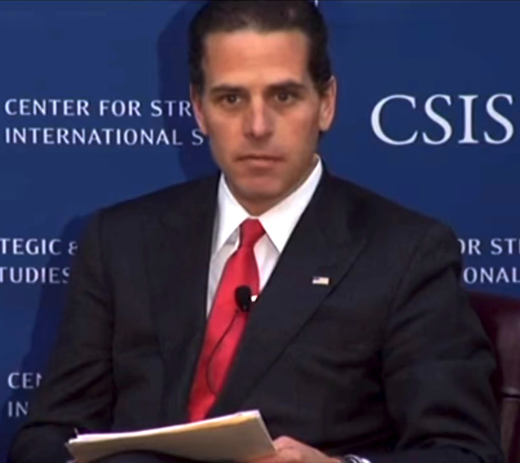 Our Shared Opportunity: A Vision for Global Prosperity Featuring Keynote Addresses by: Daniel Yohannes CEO, Millennium Challenge Corporation Elizabeth Littlefield President and CEO, Overseas Private Investment Corporation Panel Discussion: Panel 3: "Deepening U.S. Government Engagement with the Private Sector on Development Efforts" R. Hunter Biden Chairman, Rosemont Seneca Partners, LLC, and Chairman, World Food Program USA Farooq Kathwari Chairman, President, and CEO, Ethan Allen Interiors Inc. Paula Luff Vice President, Corporate Social Responsibility, Hess Corporation Katherine Pickus Divisional Vice President, Global Citizenship and Policy, Abbott, and Vice President, Abbott Fund One year ago CSIS convened the Executive Council on Development -- a bipartisan group of leaders from government, business, NGOs, and philanthropy -- to explore how the U.S. government and private sector can work together to support the economic success of developing countries. In their final report, Our Shared Opportunity: A Vision for Global Prosperity, the Council provides a targeted set of recommendations for the U.S. government and private sector, calling for a greater reliance on business, trade, and investment tools to achieve better development outcomes. The report is part of CSIS' Project on U.S. Leadership in Development, a partnership with the Chevron Corporation launched in 2011.